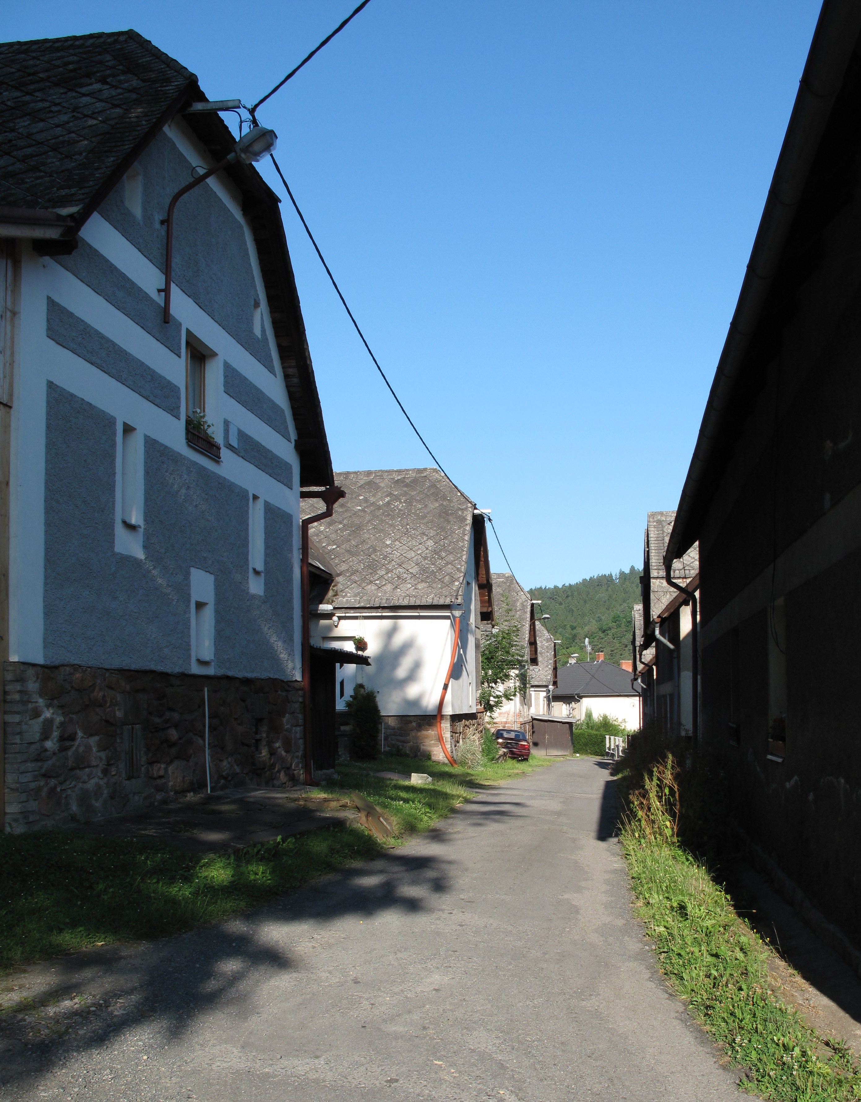 Růženín colony, Benešov District, Czech Republic. - Google Maps - Google Earth